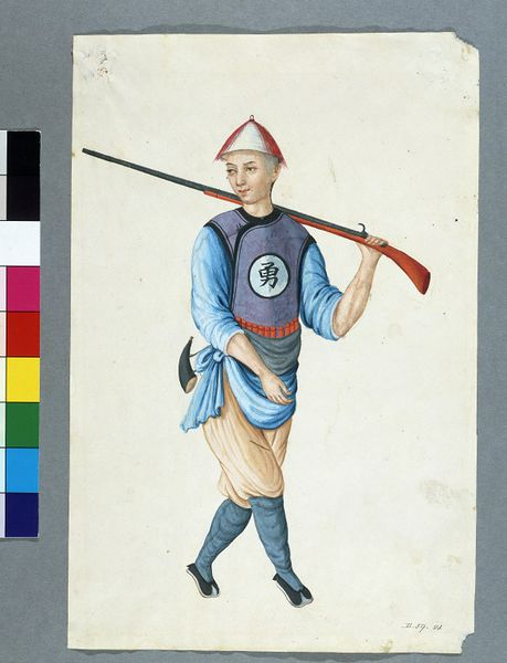 This painting is part of a group depicting different costumes worn by Chinese men and women in the early 19th century. This one shows a foot soldier with his rifle on his shoulder. At the time foot soldiers were mostly drawn from natives of the Guangxi province, and as a result foot soldiers were commonly referred to as 'Guangxi'. Europeans were fascinated by Chinese dresses and hairstyles which were markedly different from their own, and paintings such as this were mass-produced as souvenir items.